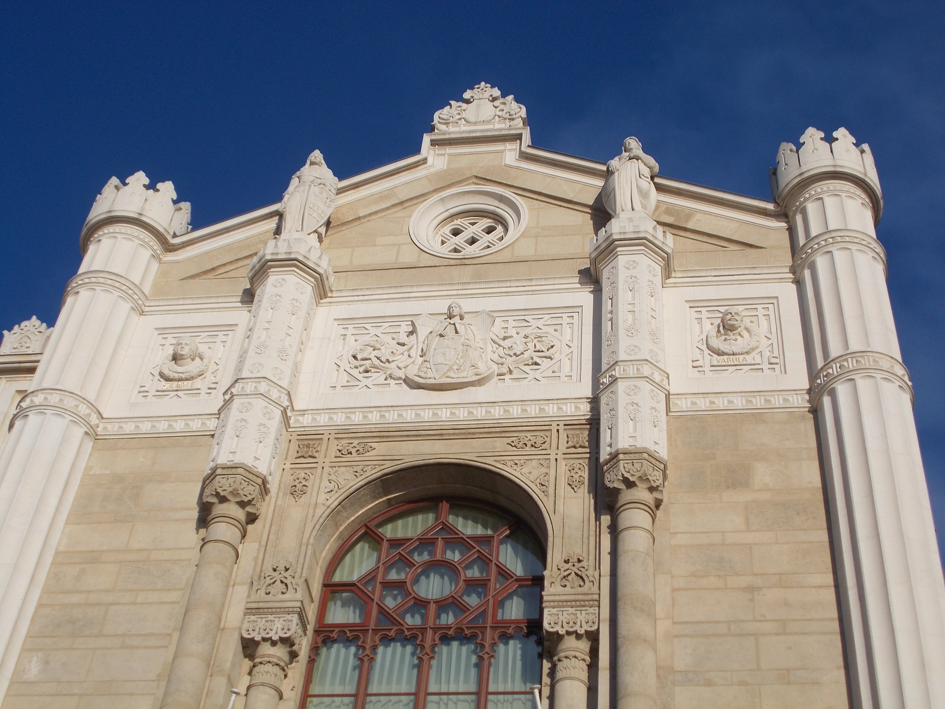 Two of all 14 head sculptures on main facade of Vigadó by János Marschalkó in 1865. - Vigadó Street, Vigadó Square, Budapest District V